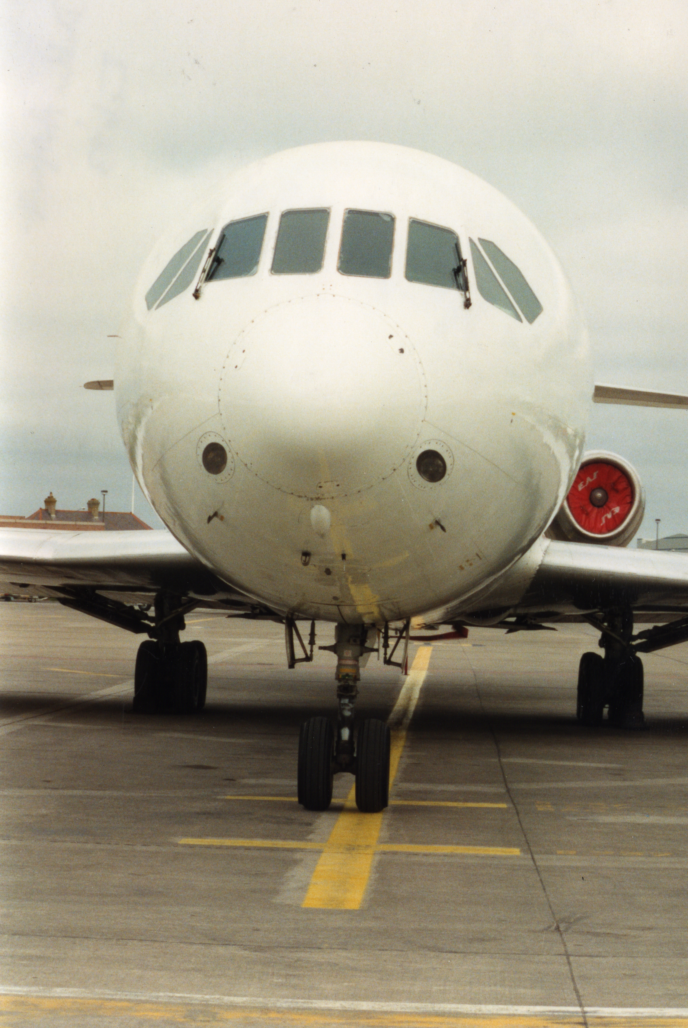 Air Toulouse (F-BMKS) Sud Aviation Caravelle aircraft, Dublin Airport, Dublin, Republic of Ireland, February 1993